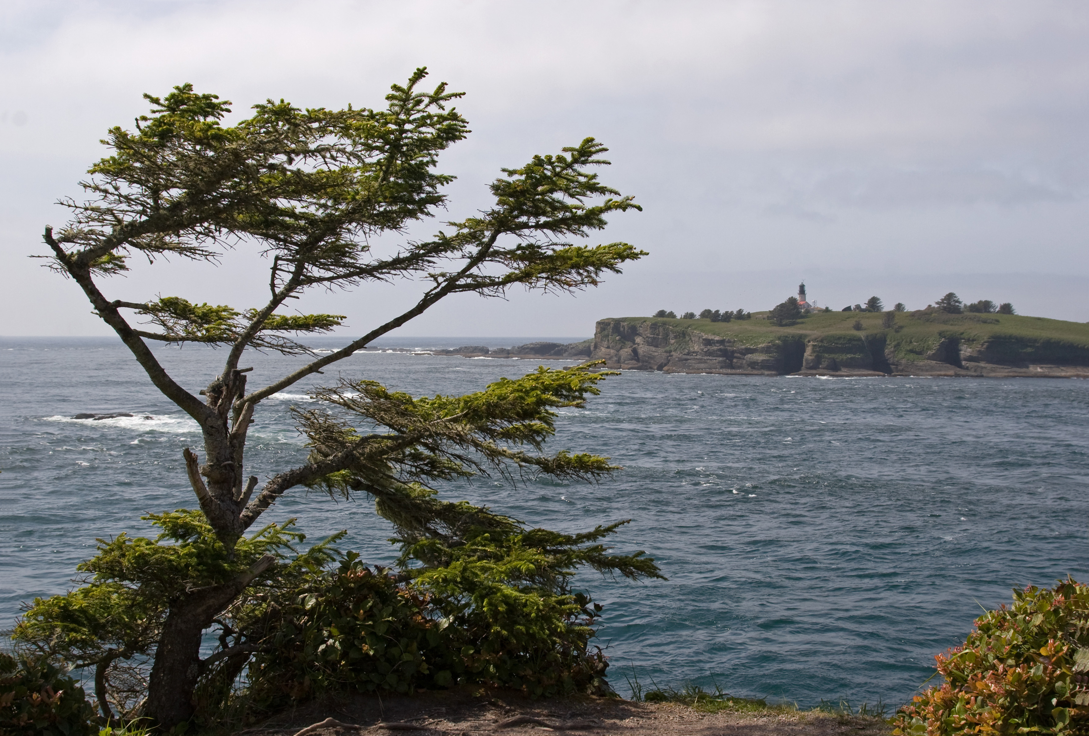 Tatoosh Island and lighthouse from Cape Flattery, with Picea sitchensis in foreground. Washington, USA.